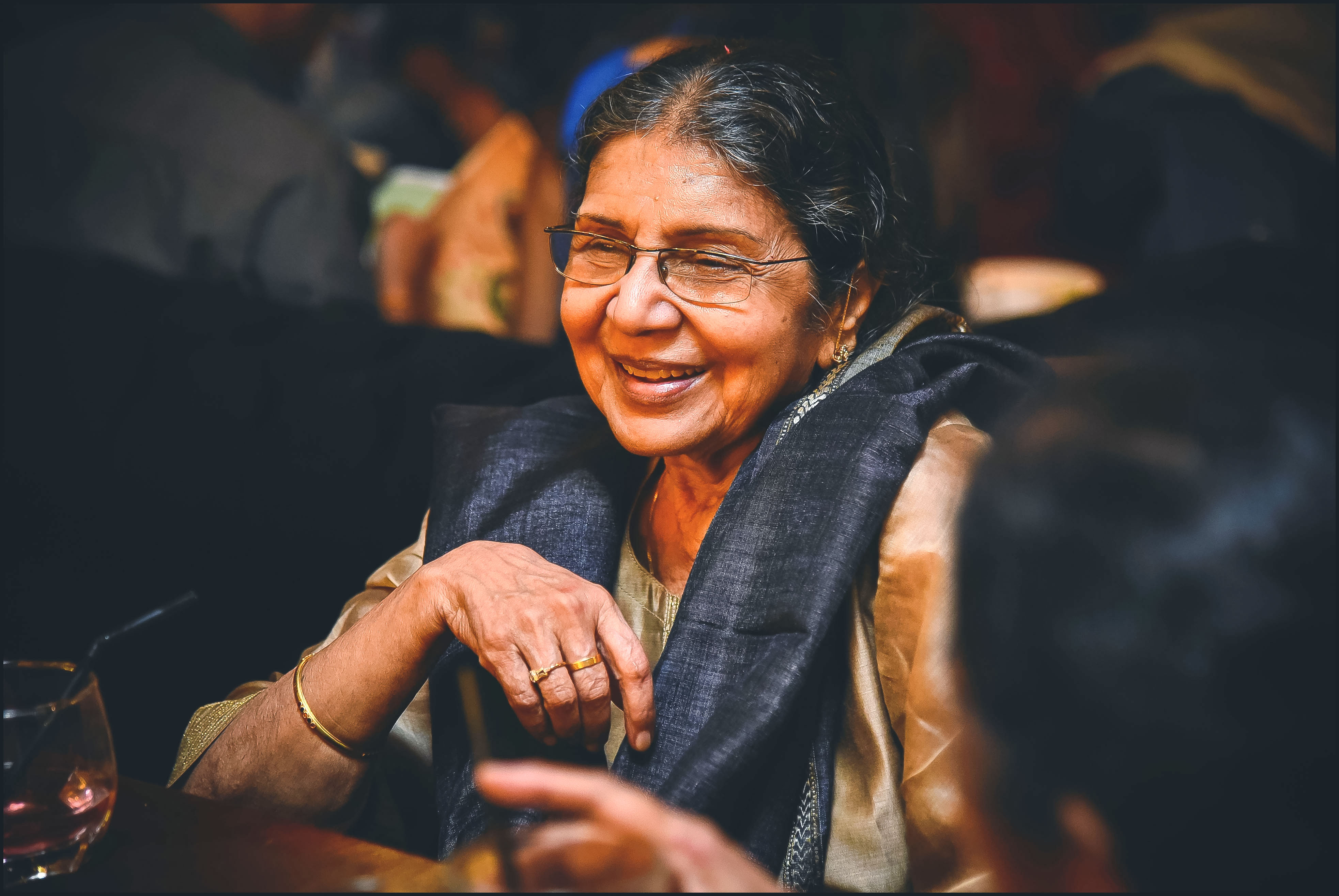 Veena Verma former Member of Parliament, wife of Late Shrikant Verma and mother of Abhishek Verma, mother in law of Anca Verma